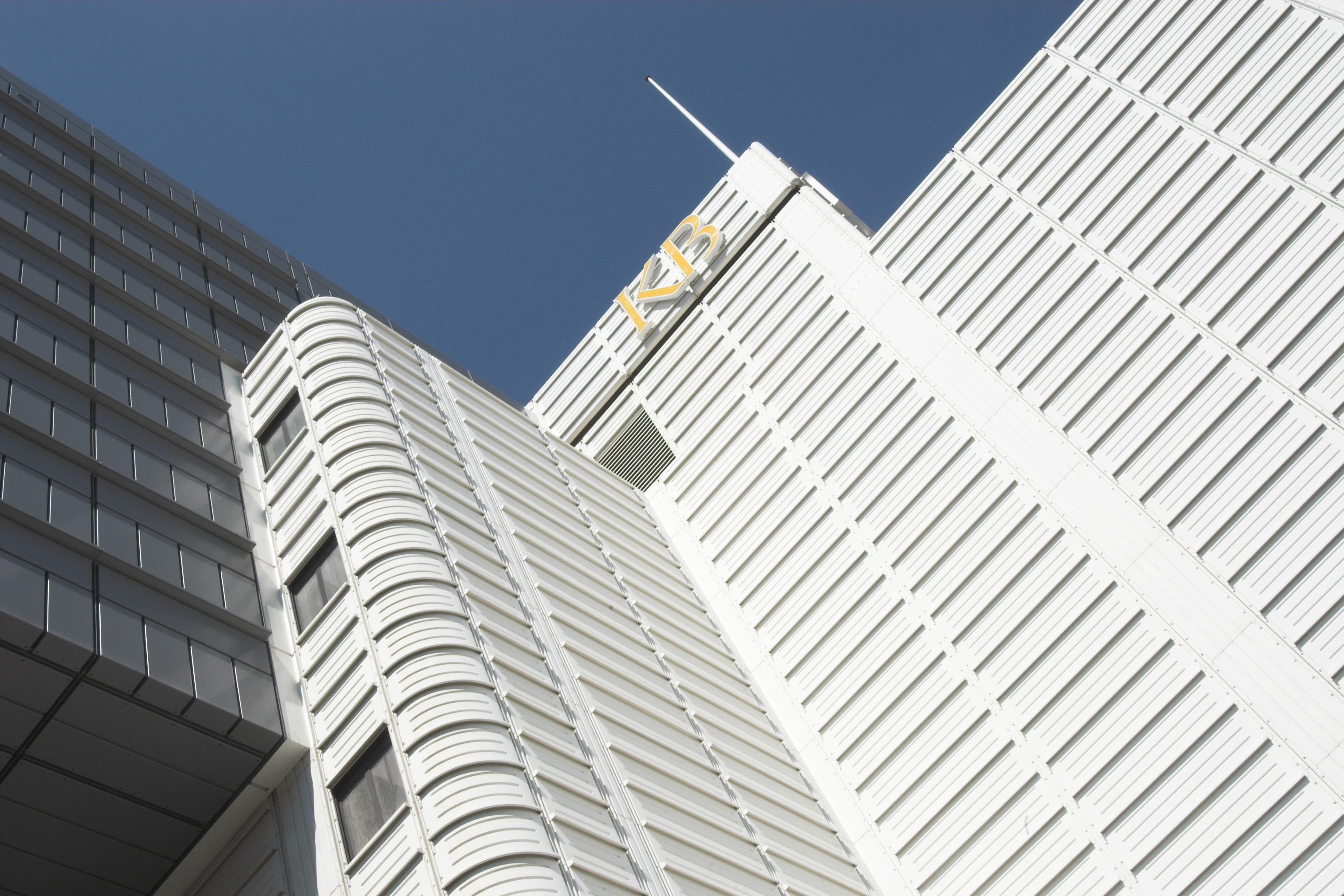 Koninklijke Bibliotheek, 2009 Voor meer informatie over de Koninklijke Bibliotheek, bezoek . Image uploaded on 02-10-2013 from the Flickr stream of the Royal Library, The Hague (Koninklijke Bibliotheek, KB, national library of the Netherlands)